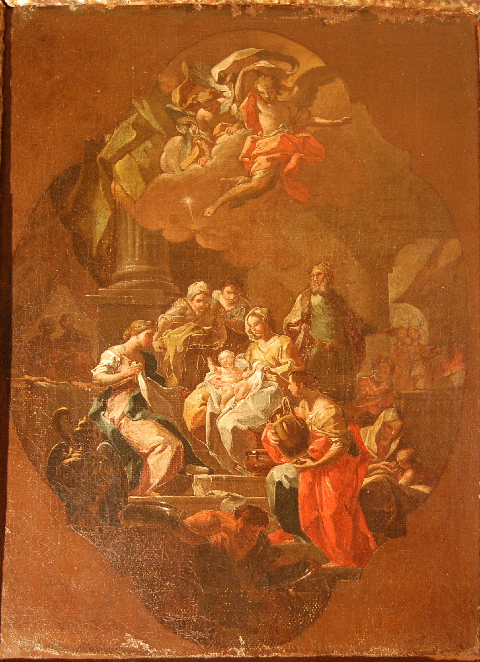 Nativity of Virgin Mary